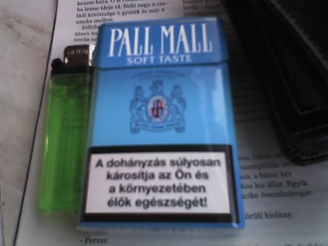 Pall Mall in Hungary